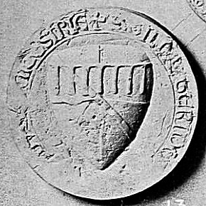 Roger de Lacy (1170–1211)